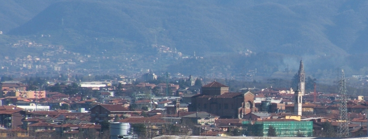 Madone, Bergamo, Lombardy, Italy – View